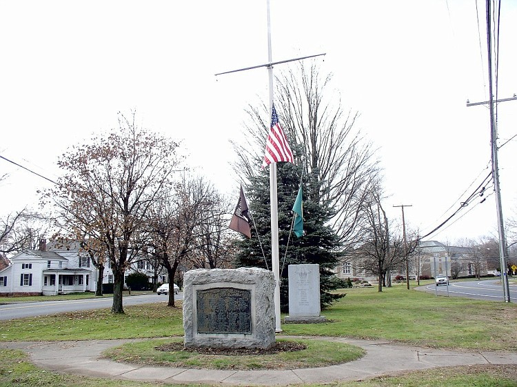 Town Green, Ellington, Connecticut. Part of the Ellington Center Historic District.